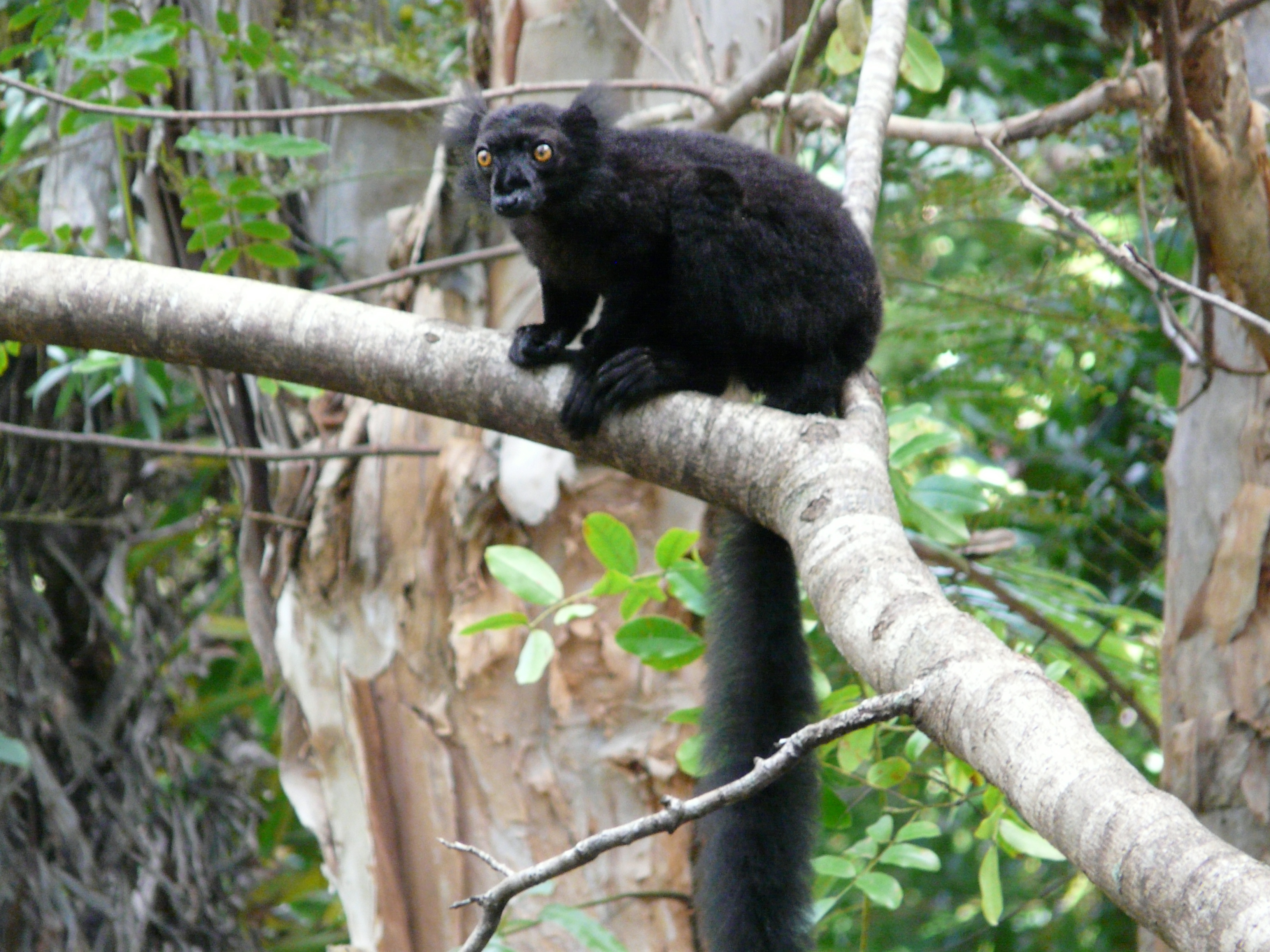 Lemur Macaco